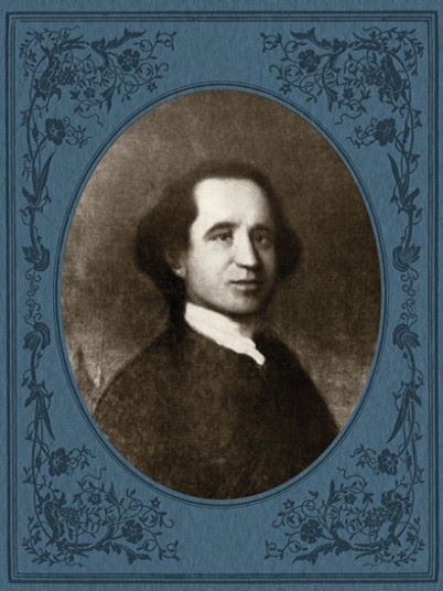 Joseph Emin